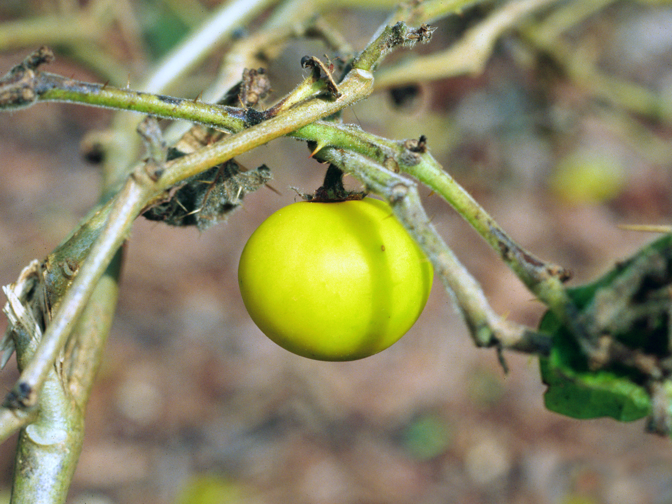 Solanum viarum Dunal - tropical soda apple, Mature fruit, USA